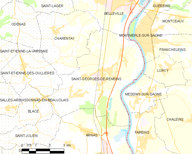 Map of French municipality